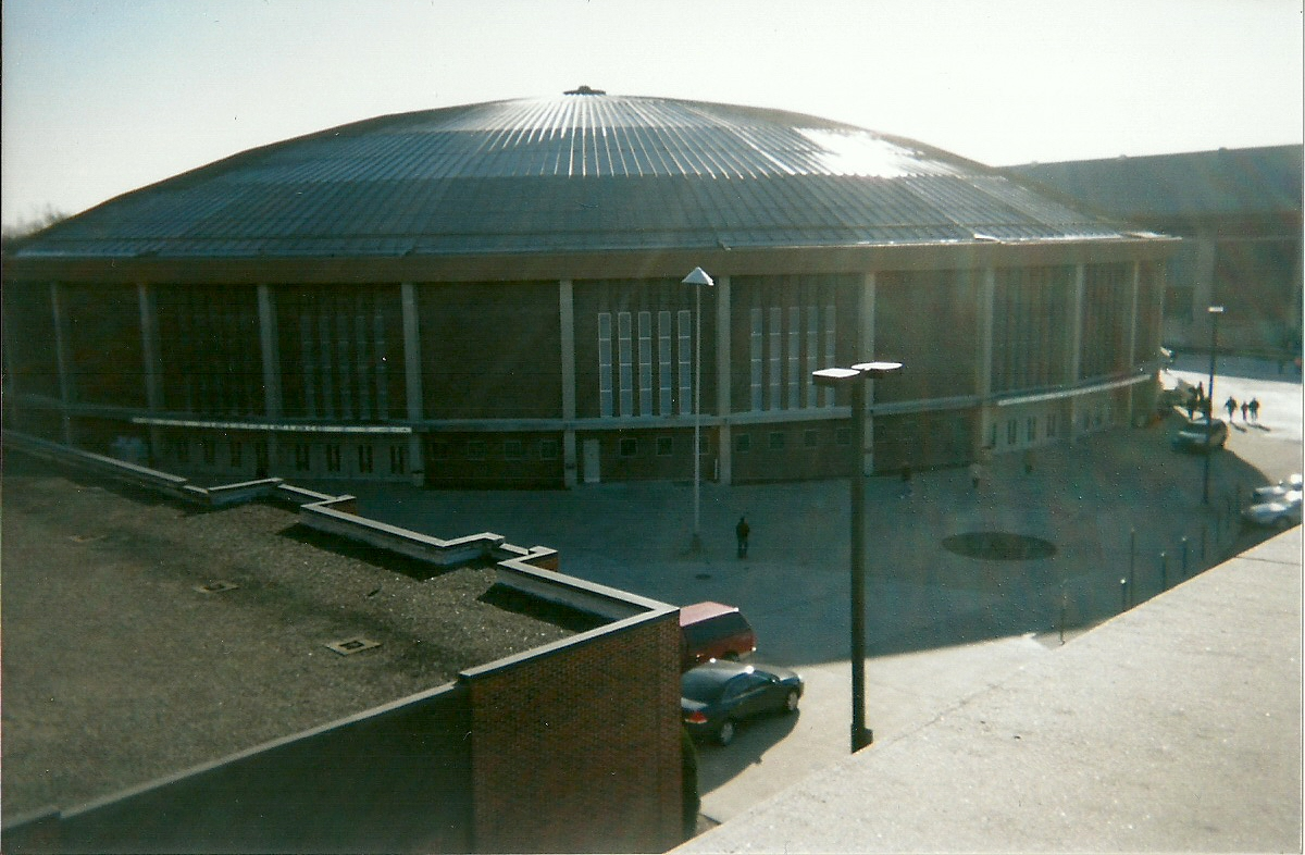 self-taken photo